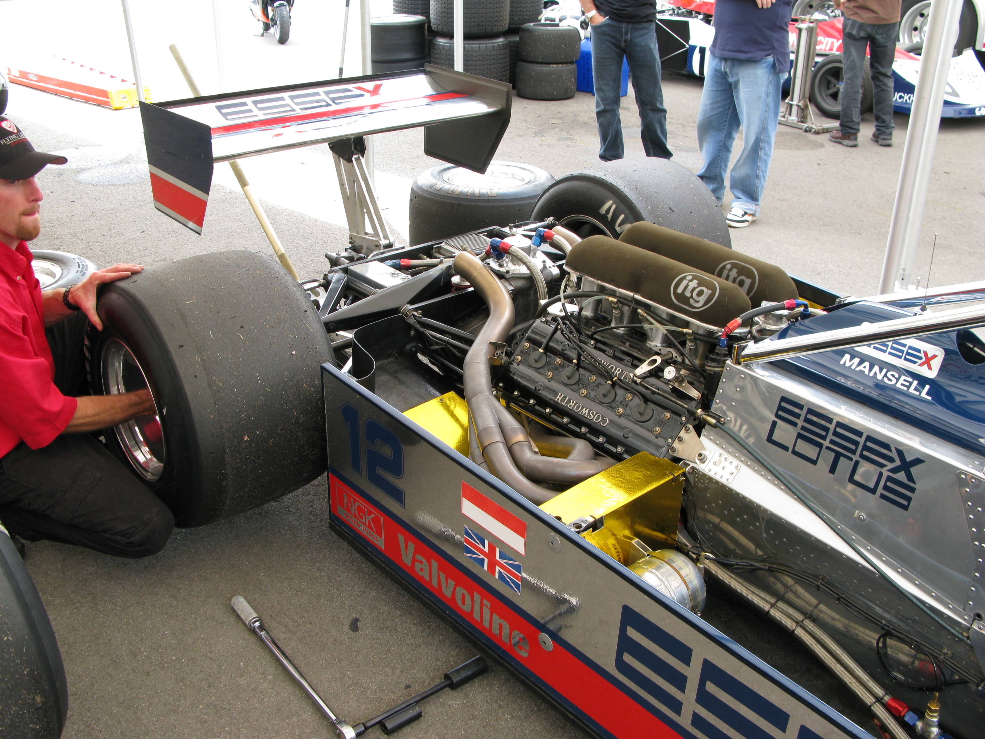 A Cosworth DFV engine and associated ancillary installation in the back of an ex-Nigel Mansell Lotus 81 Formula One car. Pictured in the paddock at Circuit Mont-Tremblant, July 2009.